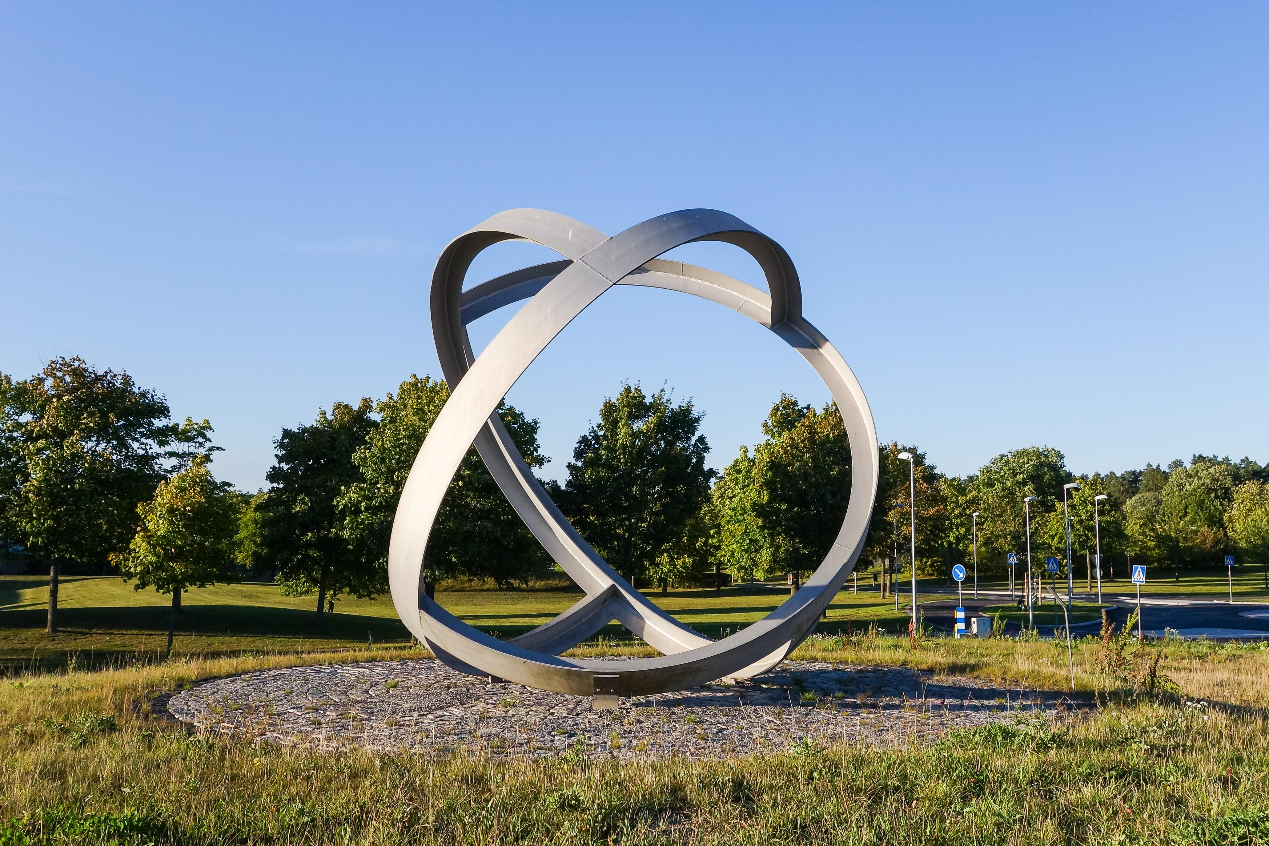 Fragmentarisk sfär by artist Bertil Herlow Svensson.